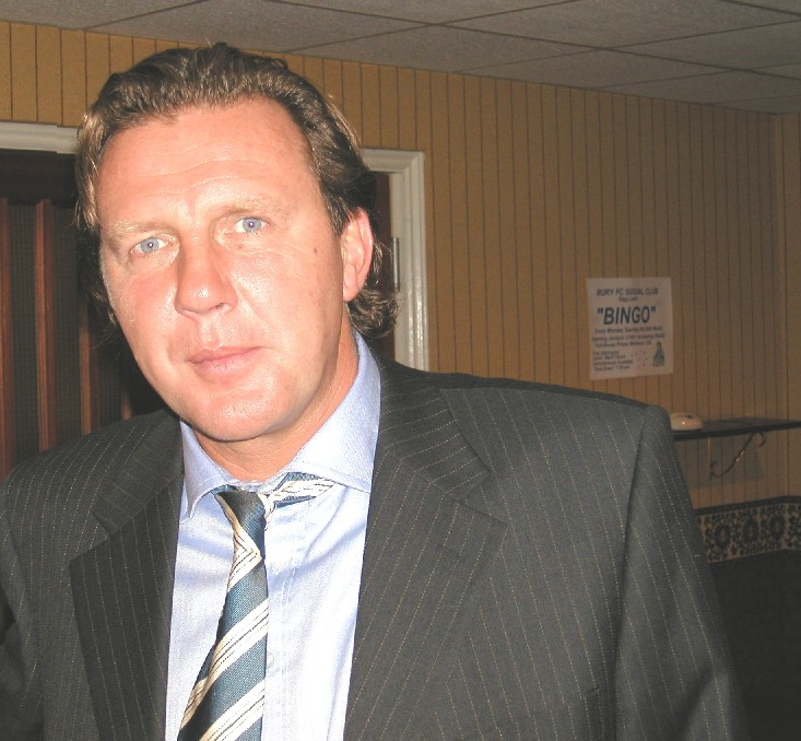 Peter Jackson - Manager, Lincoln City FC In any reproduction of this photograph, acknowledgement must be given in the form: Photographer: Gareth J Dykes